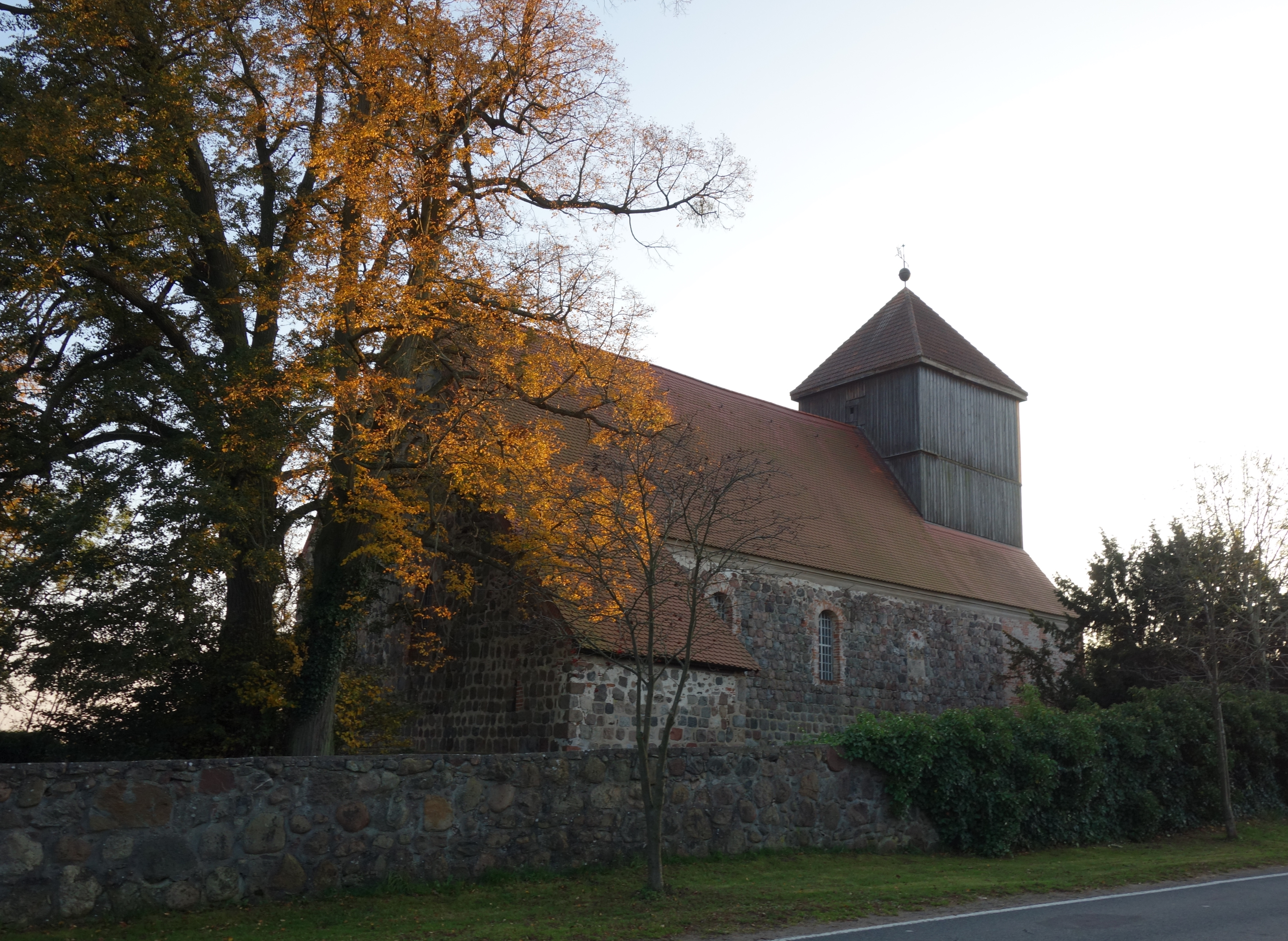 North-eastern view of church in Kaakstedt, Gerswalde municipality, Uckermark district, Brandenburg state, Germany